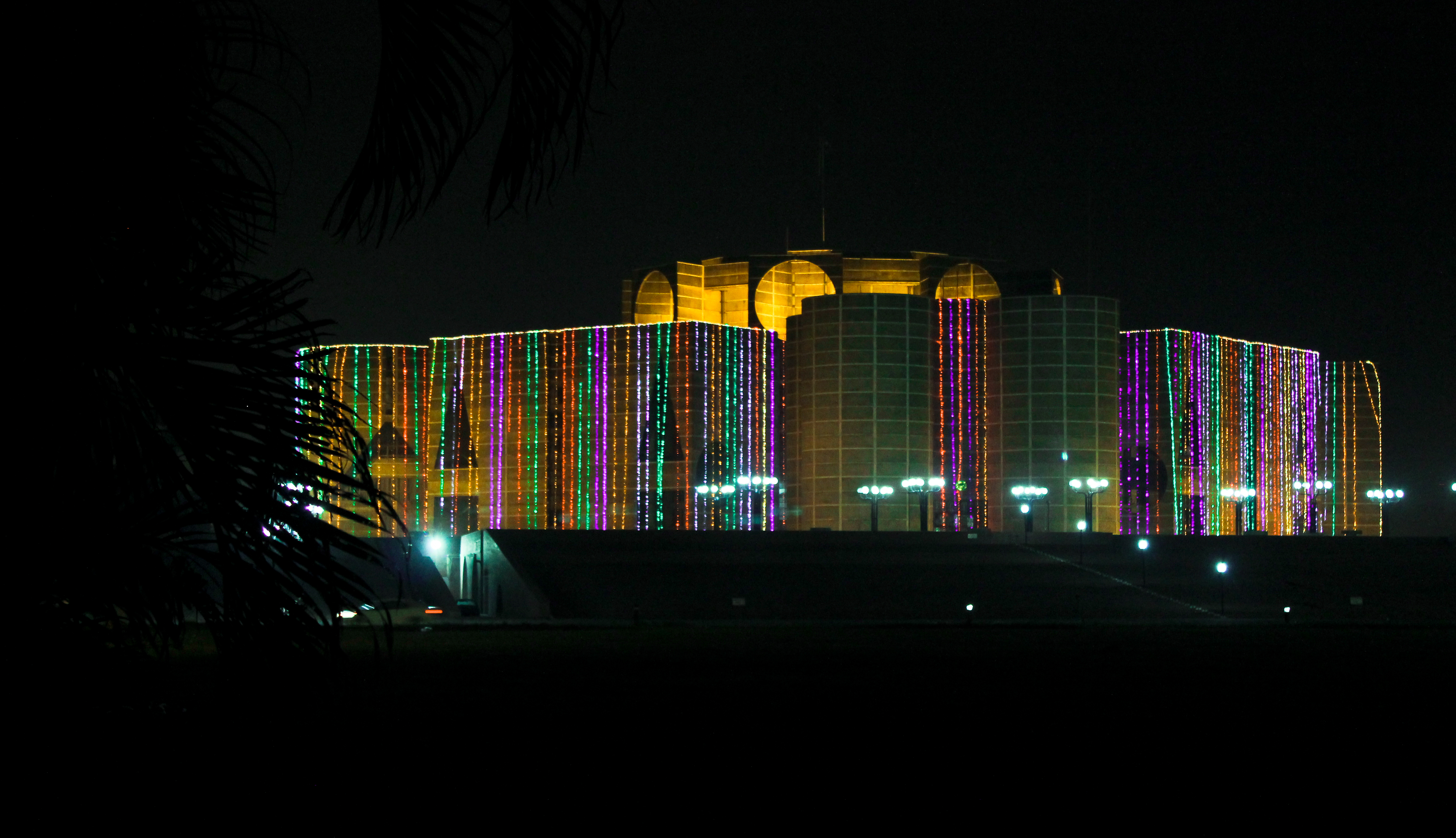 National Assembly of Bangladesh on Independence Day in Dhaka